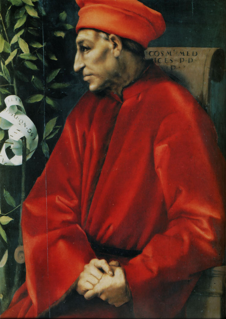 The laurel branch is a traditional Medici emblem.